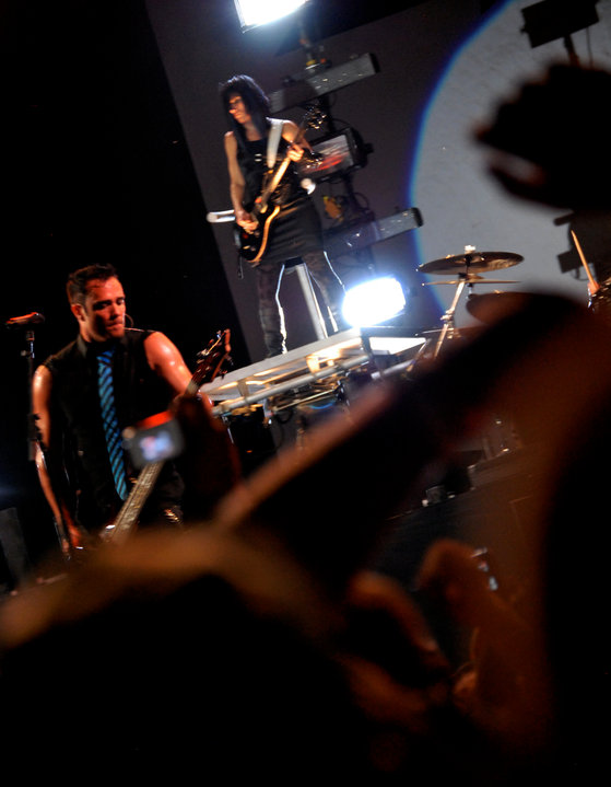 Skillet performs live at the Cornerstone Music Fest in Bushnell, IL, on July 1, 2010.